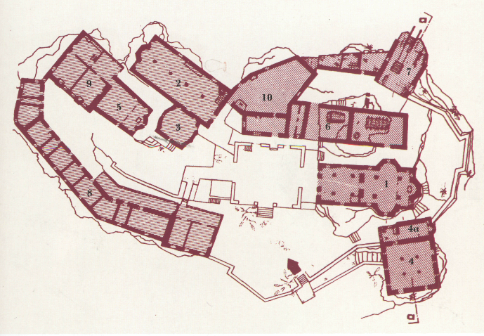 The Holy Monastery of Varlaam